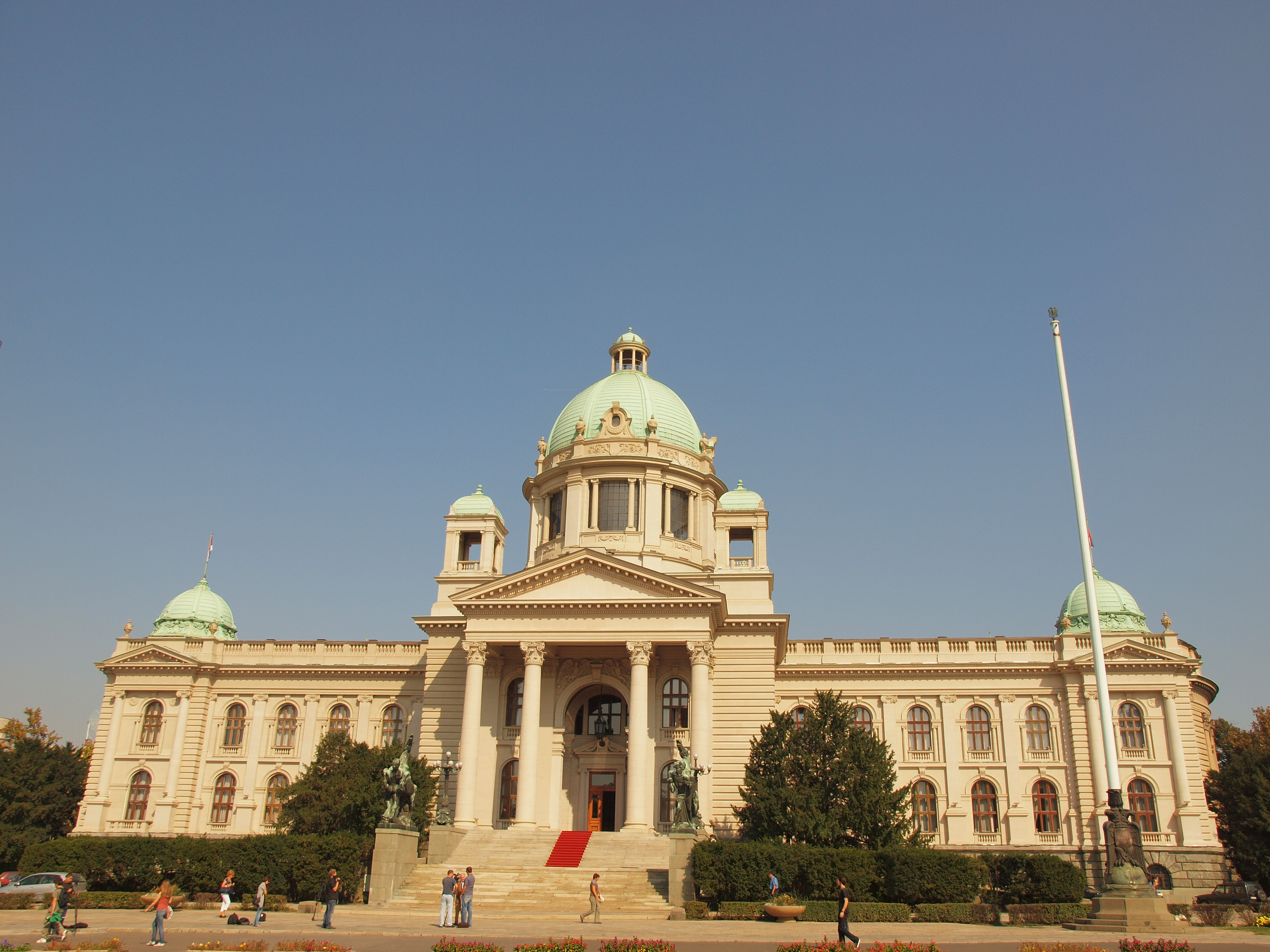 skupstina srbije posle renoviranja